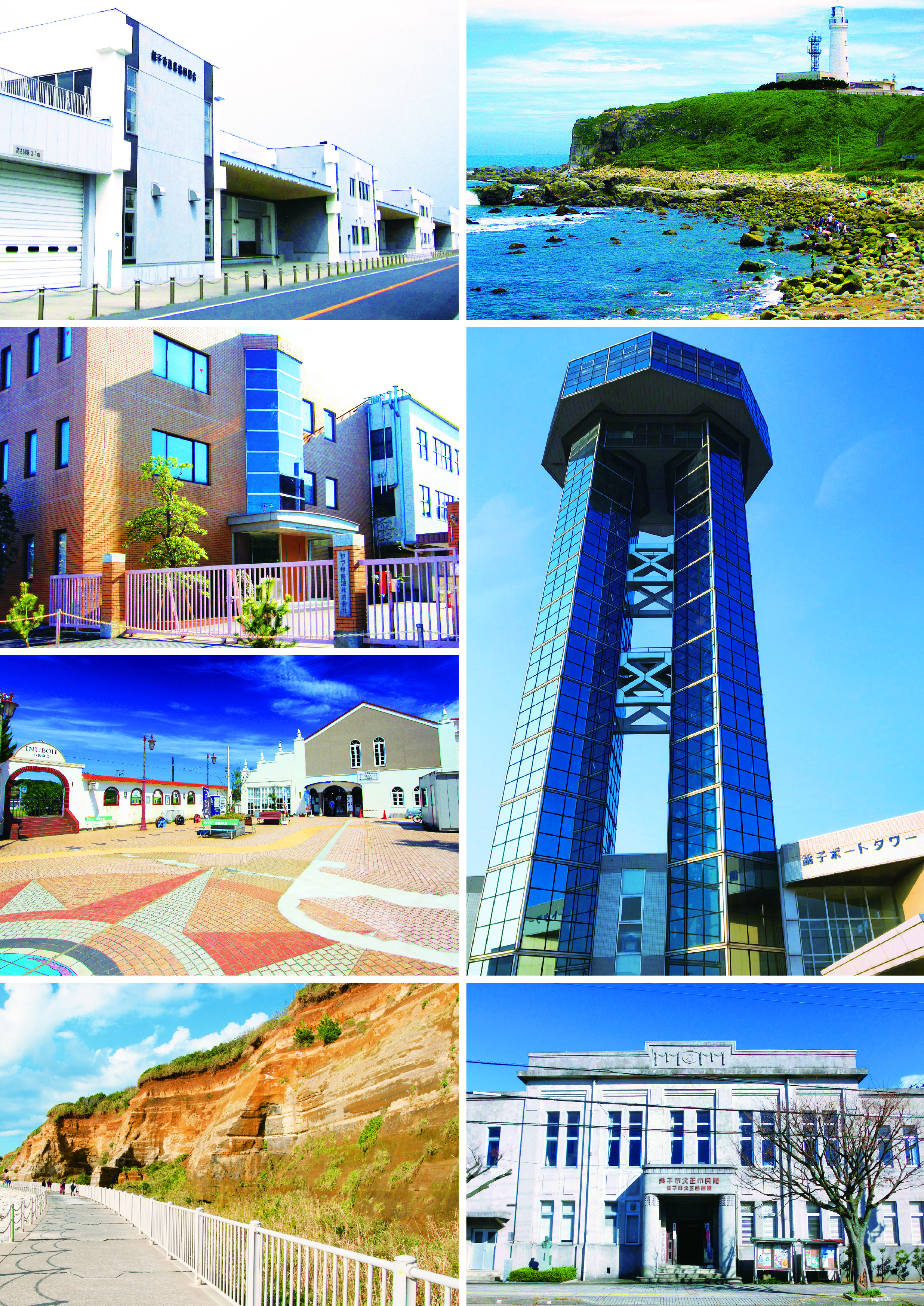 Choshi montage 2.jpg